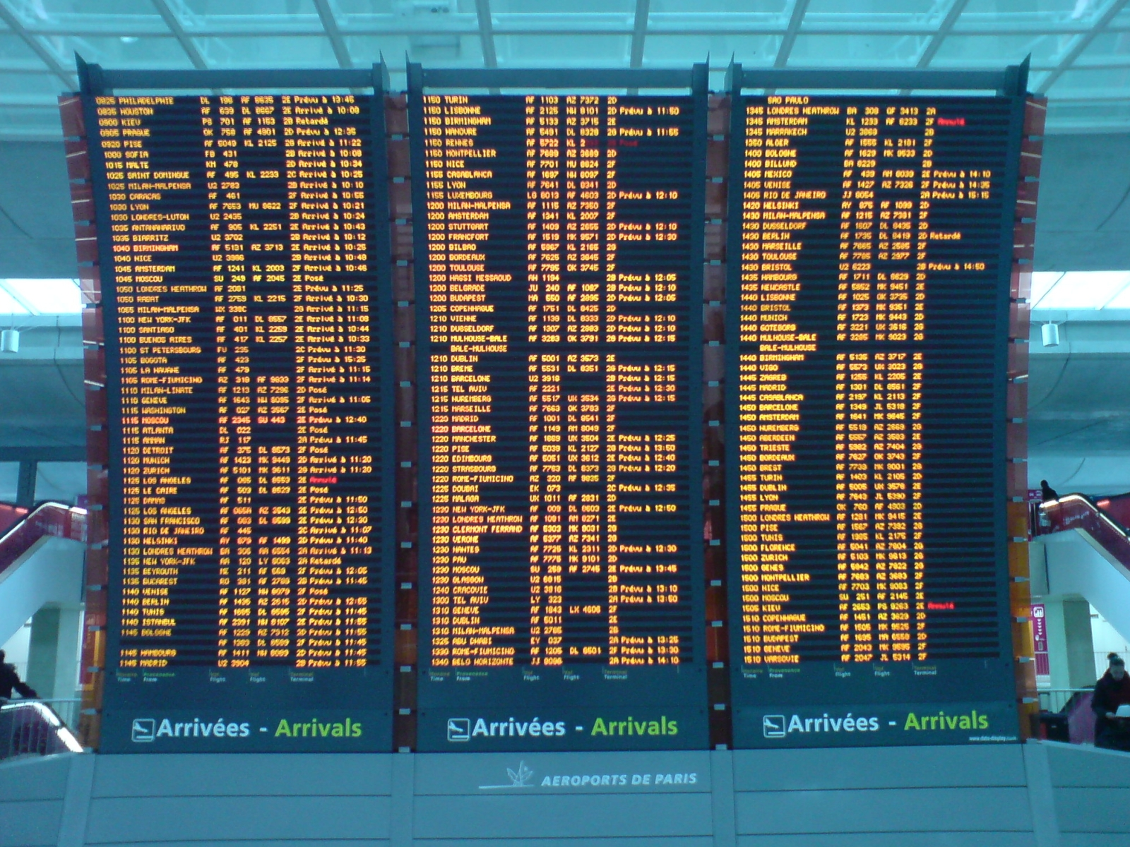 A flight departure screen at an airport train station in Paris, France.